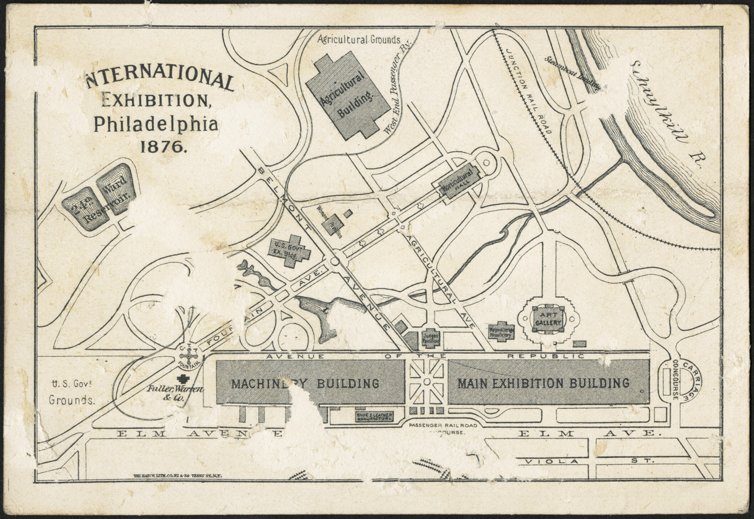 File name: 10_03_001746b Binder label: Stoves Title: The Adams & Westlake non explosive oil stove. No. 2 Stove - The Adams & Westlake Stove for 1882 is a complete change from all former patterns. (back) Date issued: 1870-1900 (approximate) Physical description: 1 print : lithograph ; 16 x 9 cm. Genre: Advertising cards Subject: Stoves Notes: Title from item. Statement of responsibility: The Adams & Westlake Mfg. Co. Collection: 19th Century American Trade Cards Location: Boston Public Library, Print Department Rights: No known restrictions.